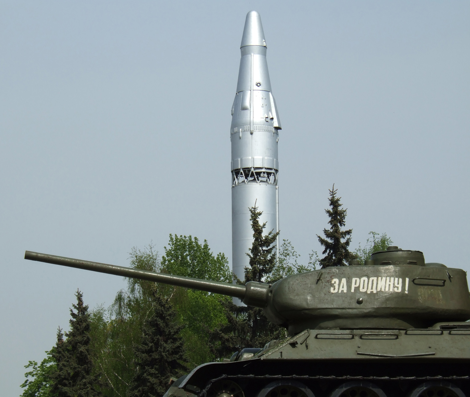 R-9 ICBM and T-34-85 Model 1945 tank on display at the Central Armed Forces Museum (Russia)